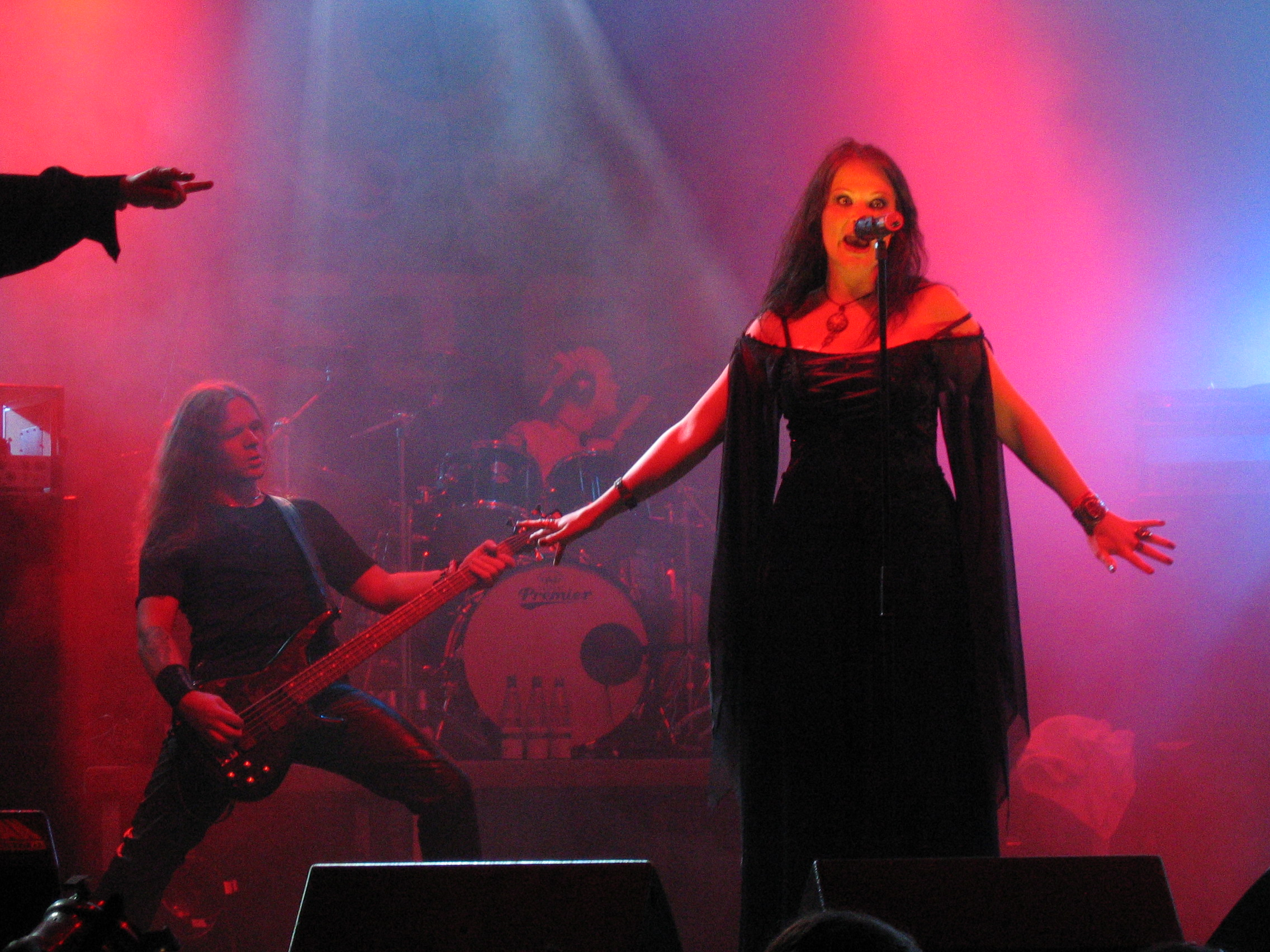 Tristania on Summerbreeze, GermanyTristania